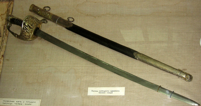 Sword of Osman-pasha. Turkish Admiral gave it to Russian Admiral after Sinop battle.